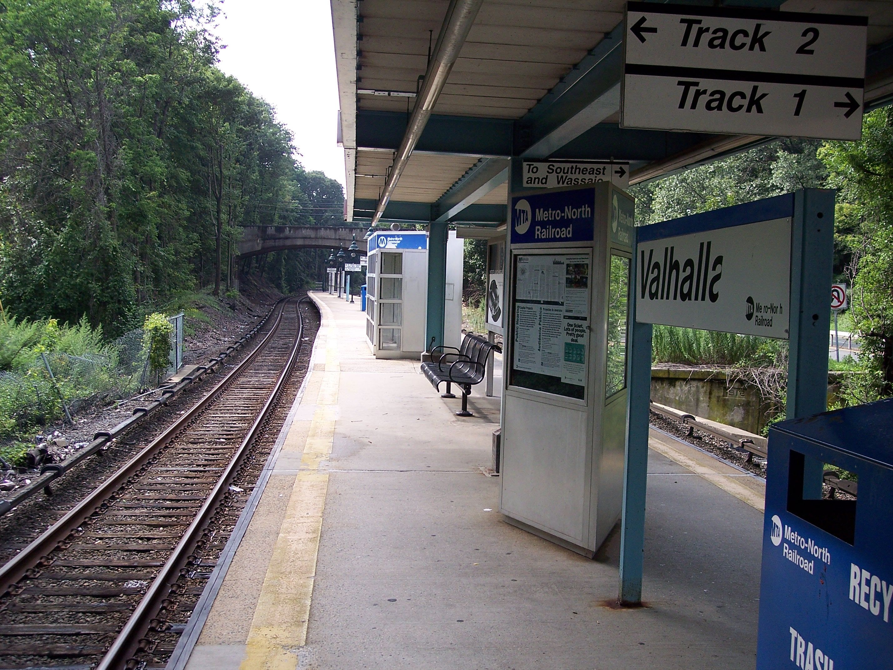 Valhalla train station on the Metro-North Railroad Harlem Line in Valhalla, New York. View is from the southeast end of the platform looking northwest toward Brewster.